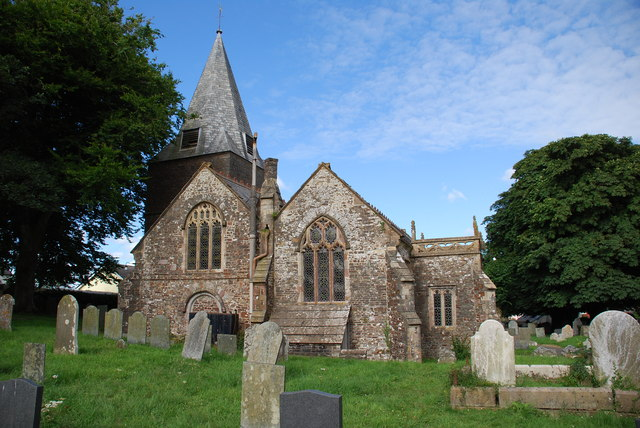 Parish church of St George and All Saints, Beaford, Devon, seen from the west